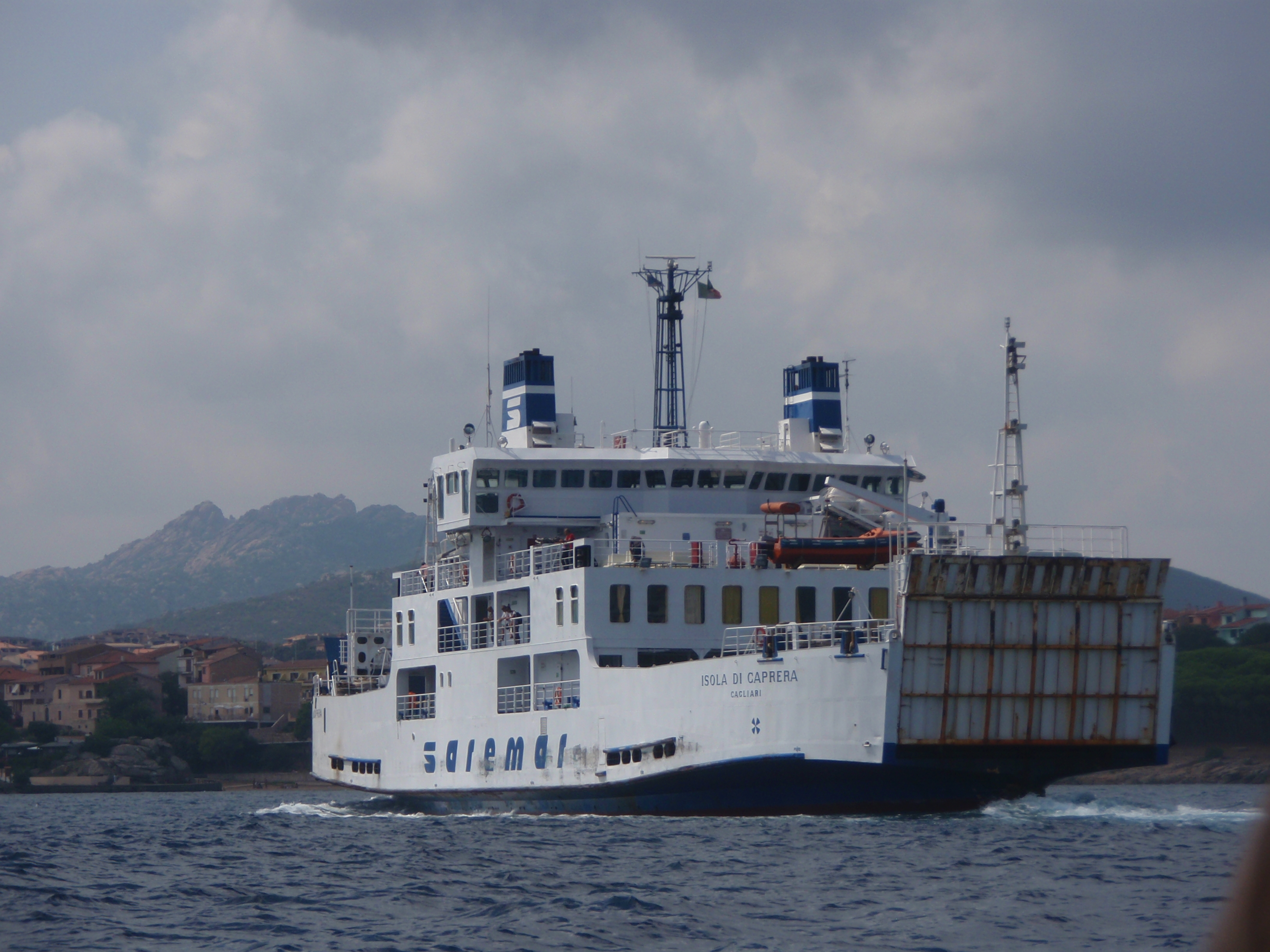 Ferry "Isola di Caprera" under way.